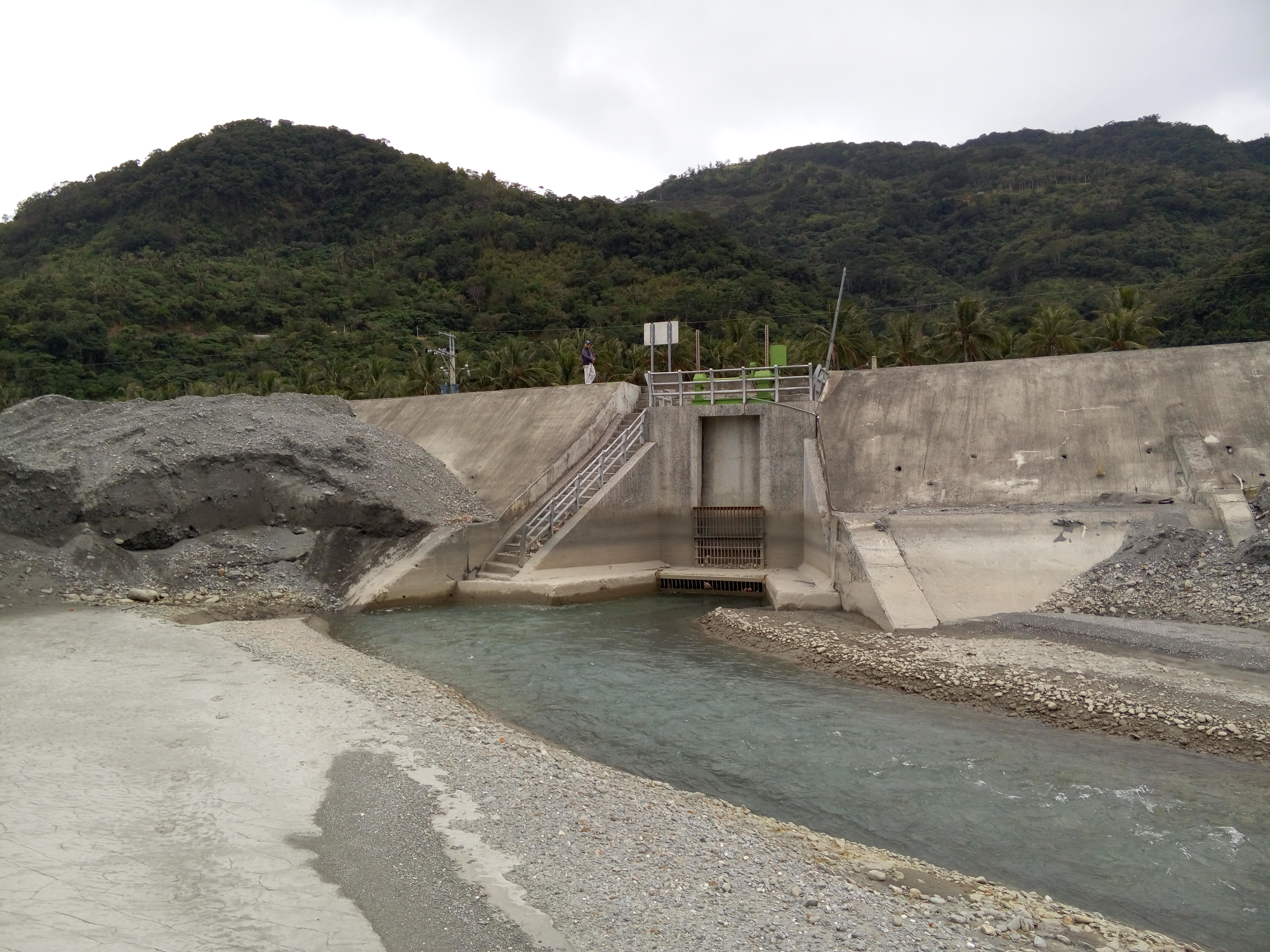 Taiwan(R.O.C)TaitungTaimali Township Xiang-Lan Waterway